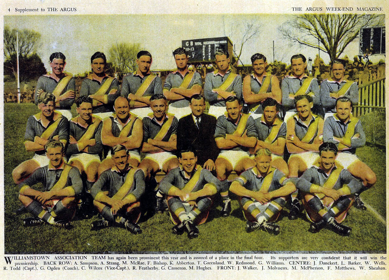 Colored photo of Williamstown FC, premiers